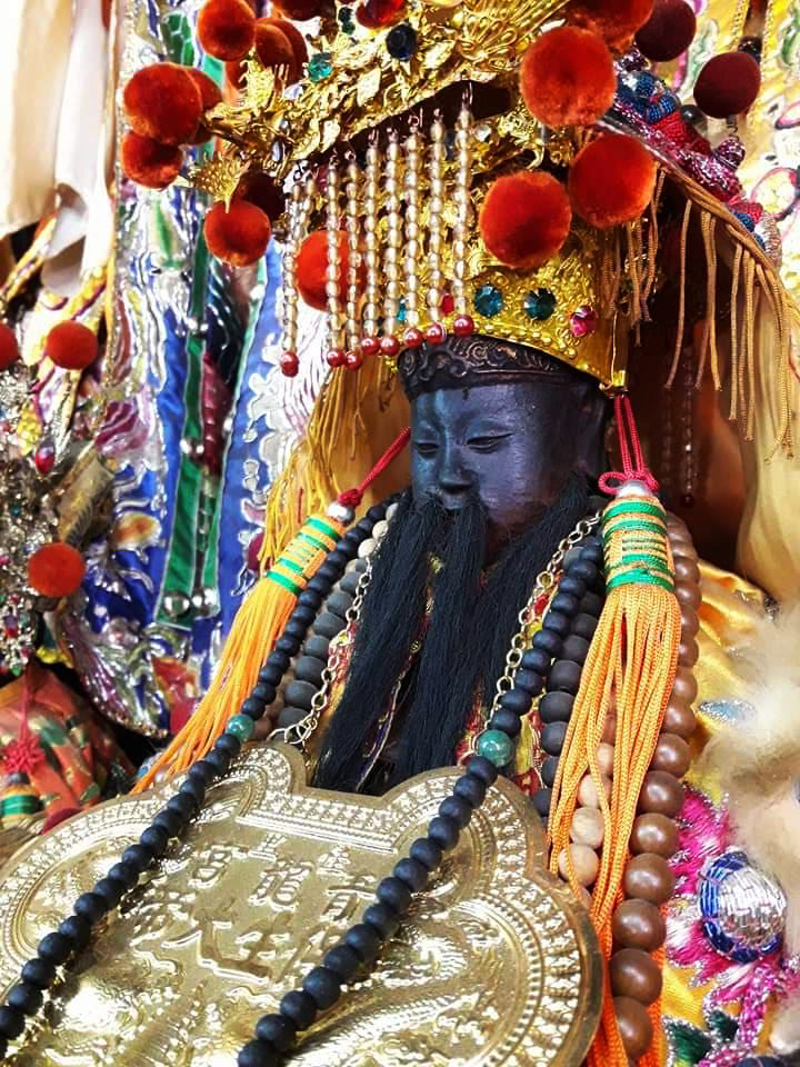 青龍宮開基二大帝